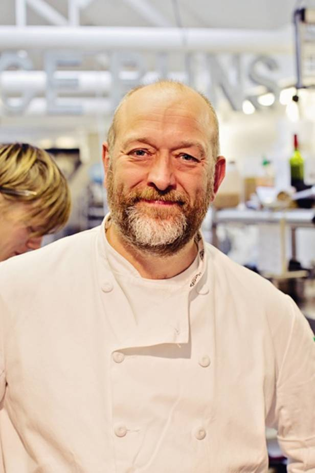 Tim Hayward